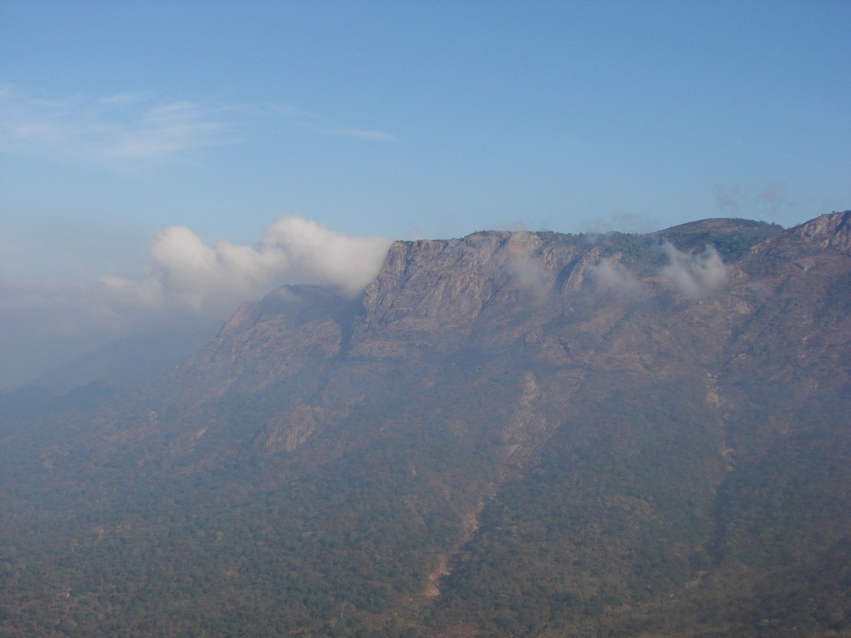 Kolli HIlls, Tamil Nadu, India